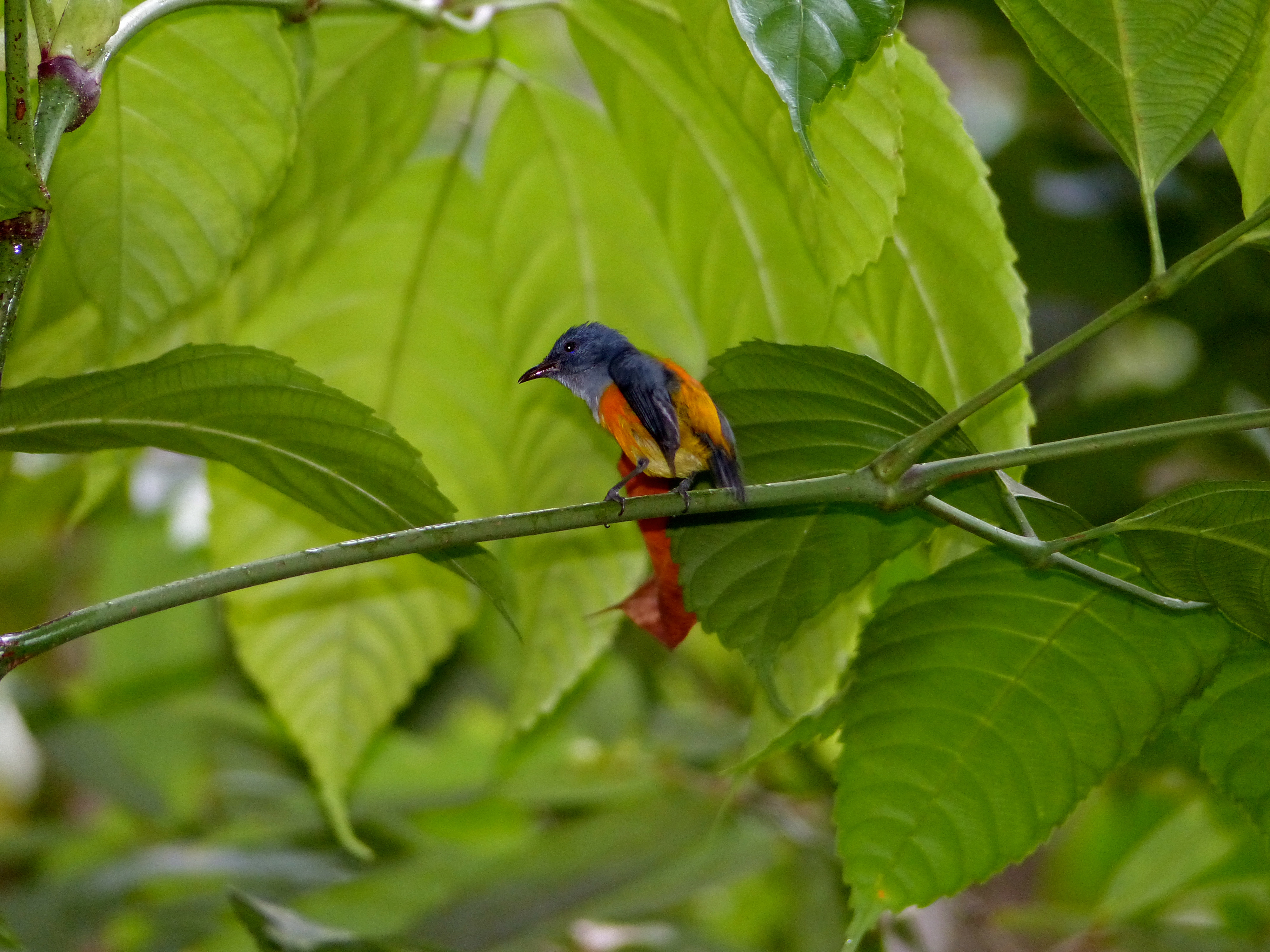 Permai Rainforest Resort, Santubong Peninsula North of Kuching, Sarawak, MALAYSIA